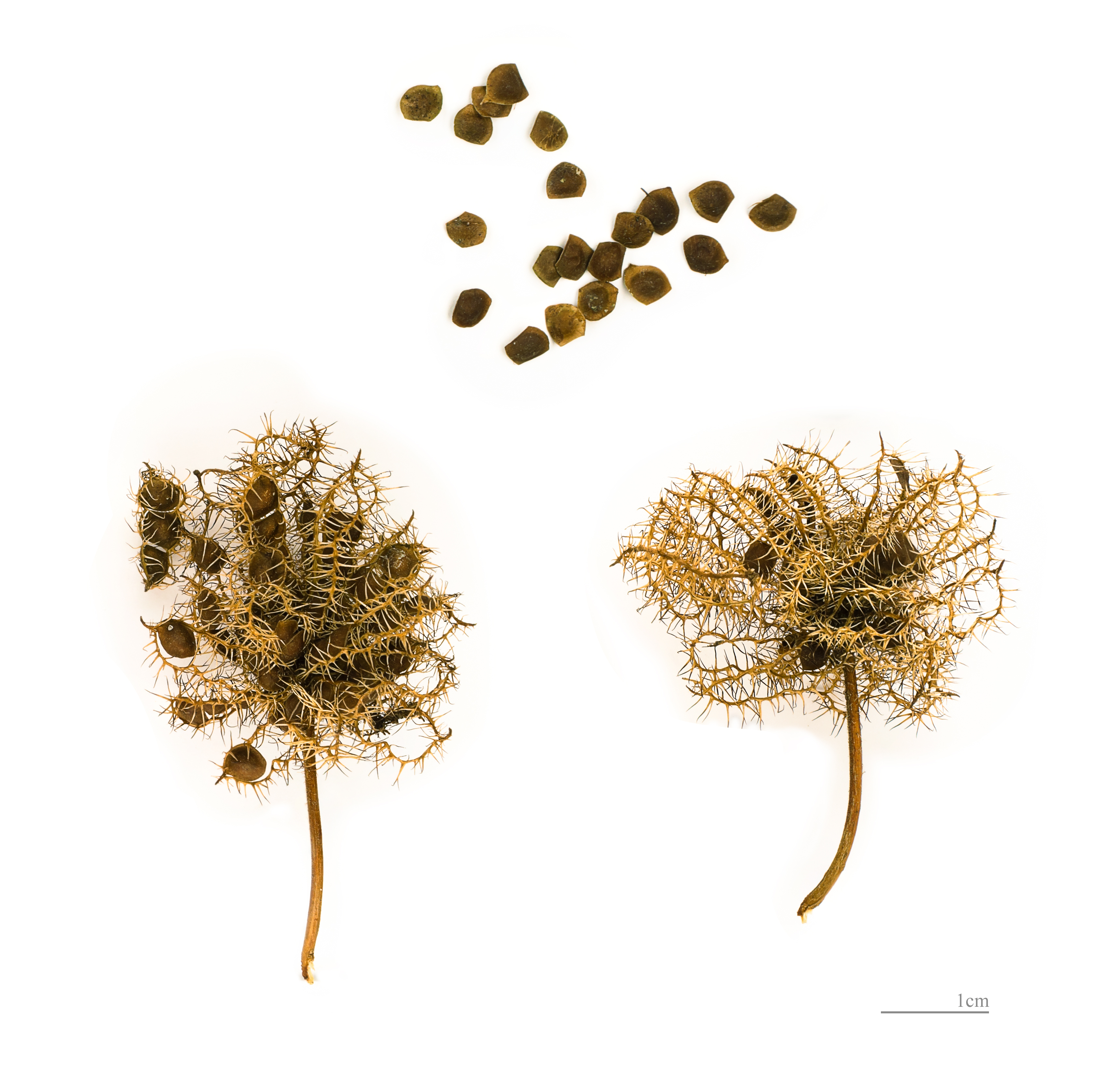 Sensitive plant, fruits and seeds